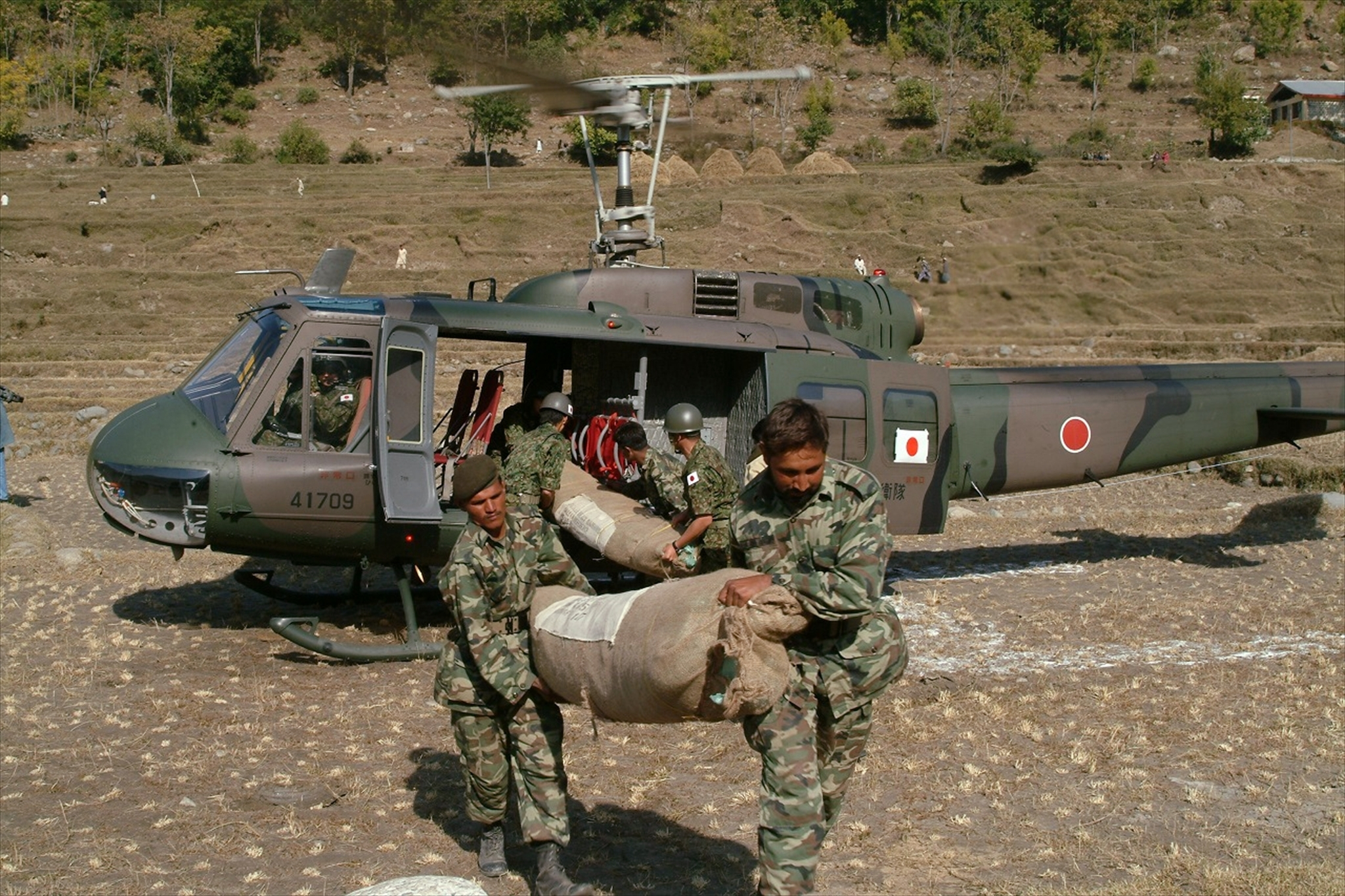 Japan Ground Self-Defense Force International disaster relief activities in Pakistan (2005 Kashmir earthquake)